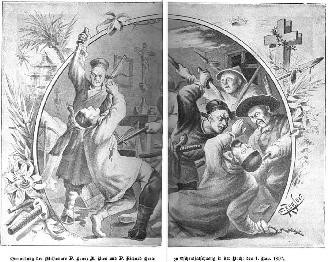 Contemporary German drawing depicting the killings of Franz Xavier Nies (left) and Richard Henle (right) in the Juye incident (signed E. Regler)